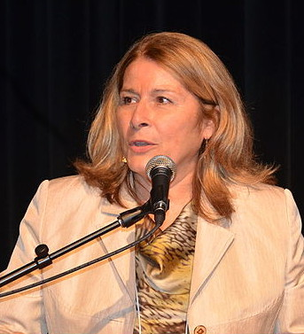 crop of Kathy Bardswick - Leaders, social innovators, and decision makers from large and small businesses, corporations, higher education institutions, government, non-profits, social enterprises, social venture capital firms, and more joined in exploring how we can effectively collaborate to create a sustainable future as part of the Accelerate Collaborating for Sustainability Conference in Guelph ON, June 10-11, 2013.